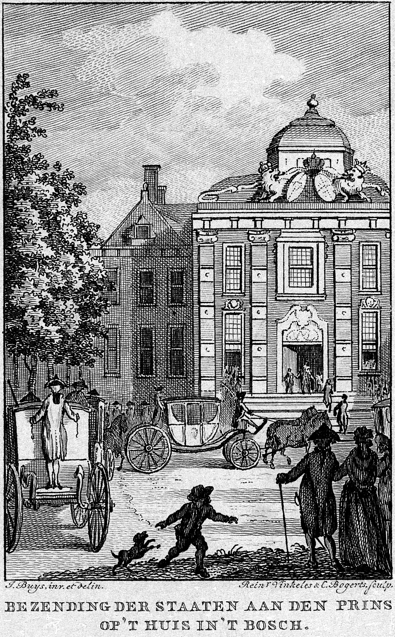 Arrival of the delegation of the States General of the Netherlands at Prince William V, palace Huis ten Bosch, July 10, 1788.